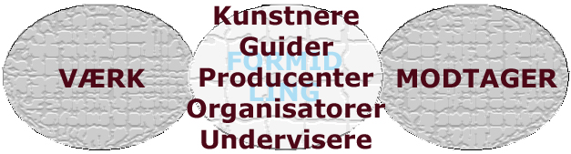 "Formidling" (communication) as the bridge between the work of art and receiver, audience. Artwork Communication: Artists, critics, manufacturers, organizations, education Audience